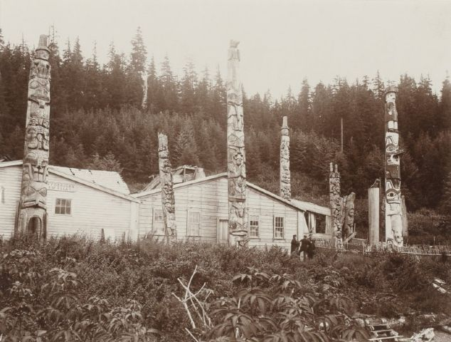 Totem poles picture by Charles F. Newcombe